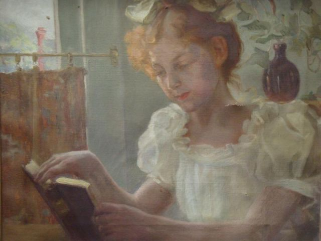 Signed Painting of a Girl Reading A Book by Emma Eilers